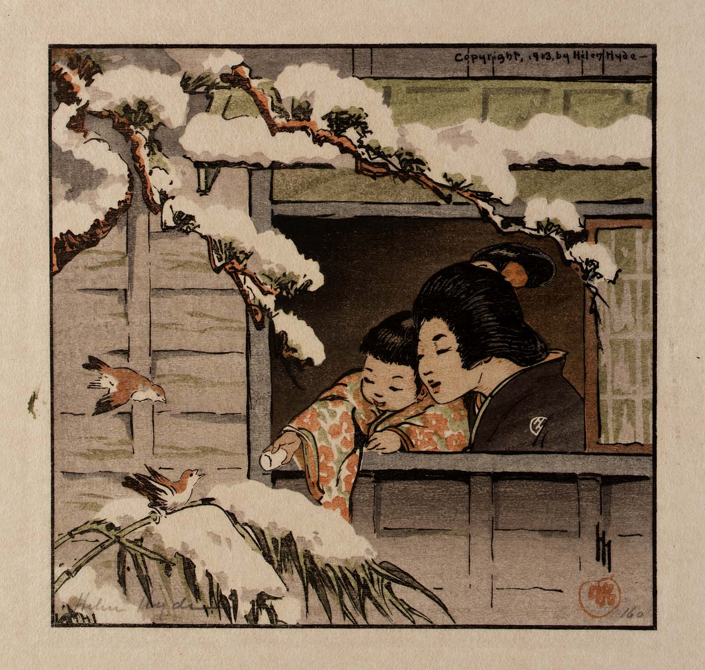 My neighbors - 1913 - Helen Hyde